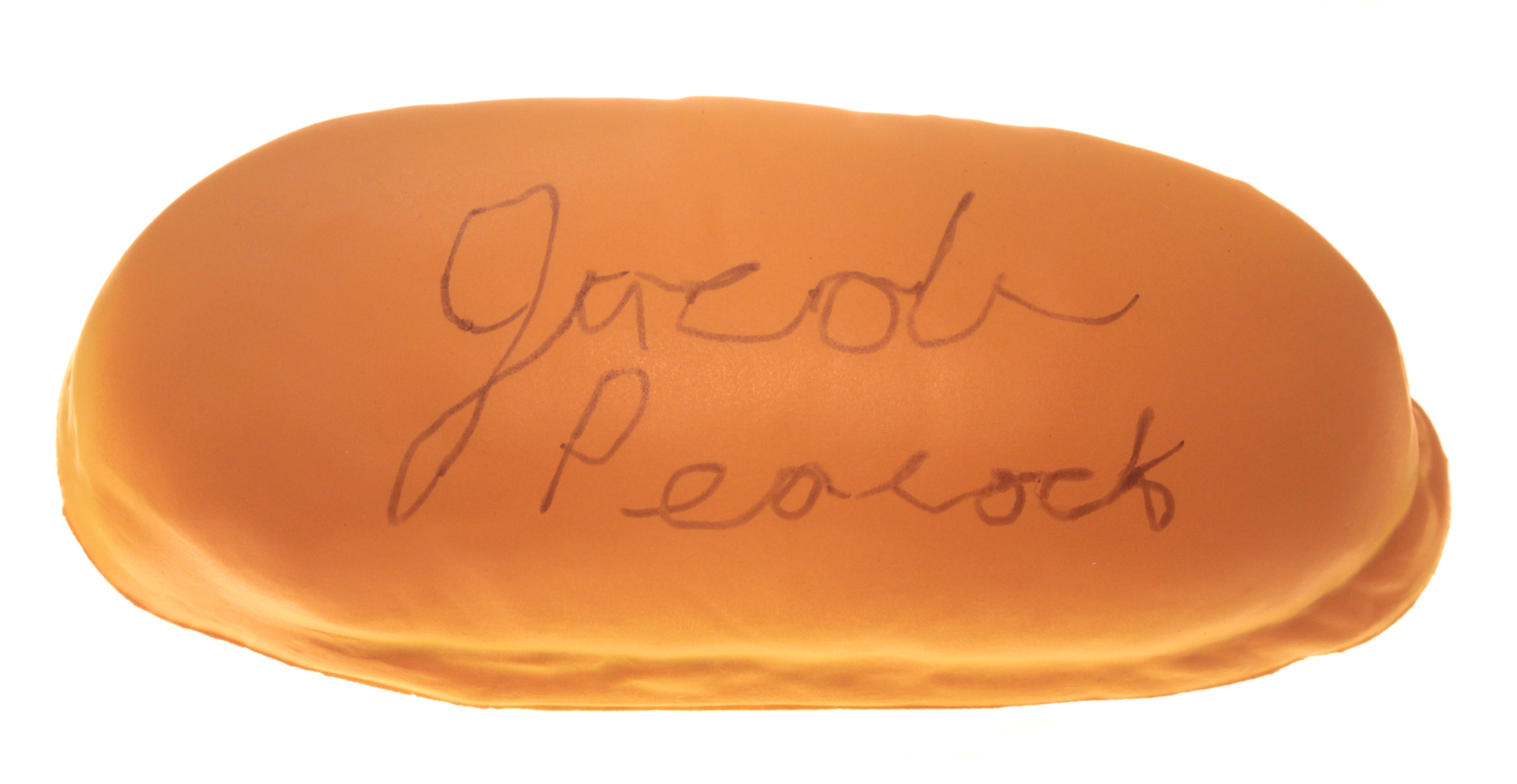 A traditional signed hotdog bun from Tony Packo's Cafe. The buns are in fact plastic. This one was sold at the gift store and signed by the photographer.